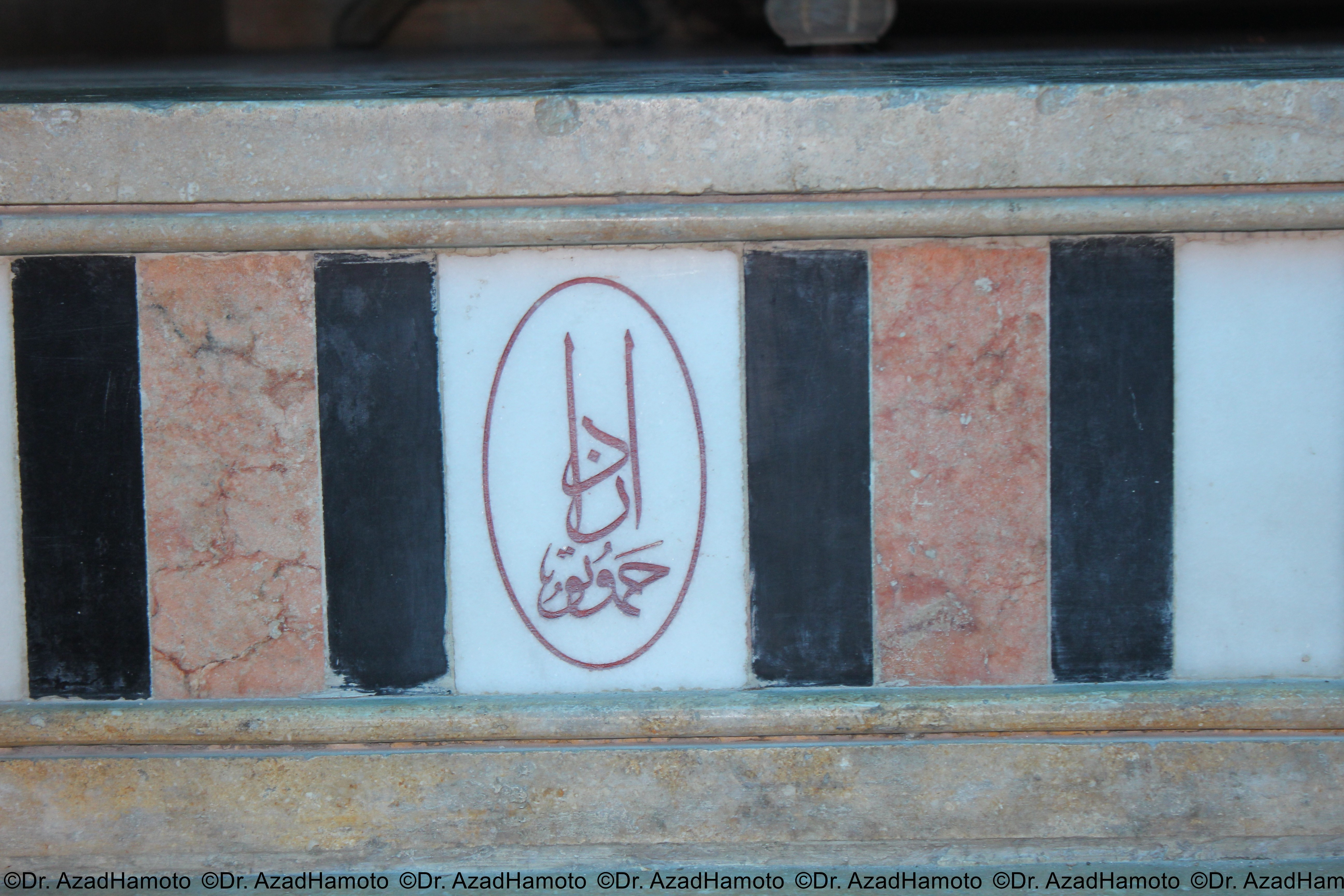 Traditional house - Bab Qinnesrin - Aleppo Old City